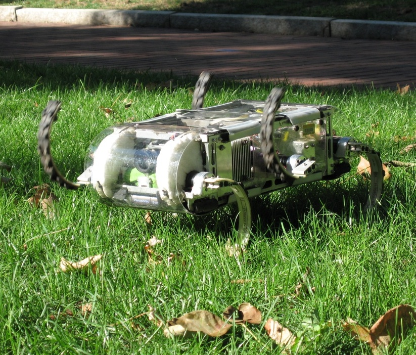 Author: Gabriel Lopes Source: University of Pennsylvania